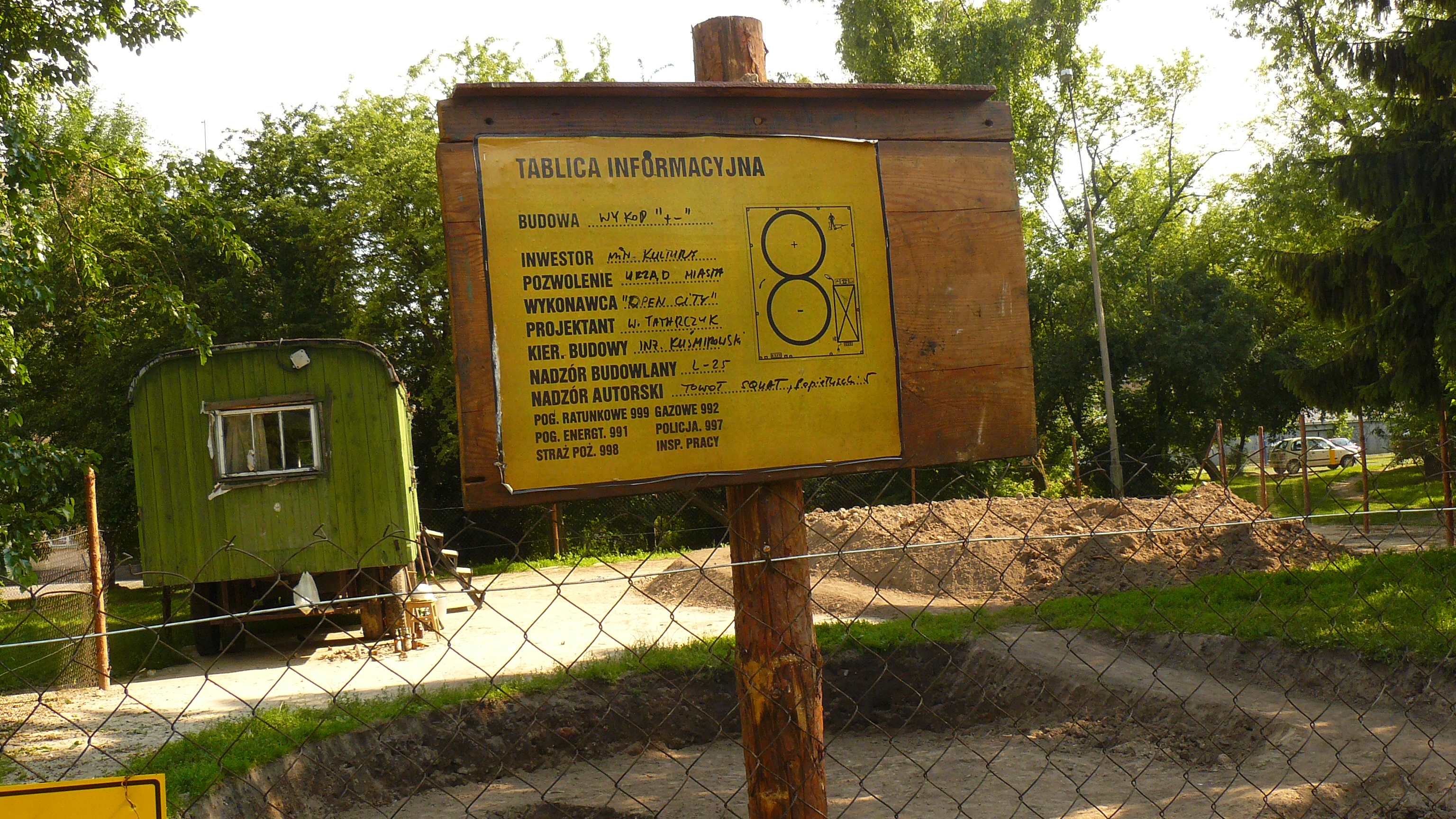 Robert Kuśmirowski, "Wykop +-", Place where we try to build something, never-ending story.